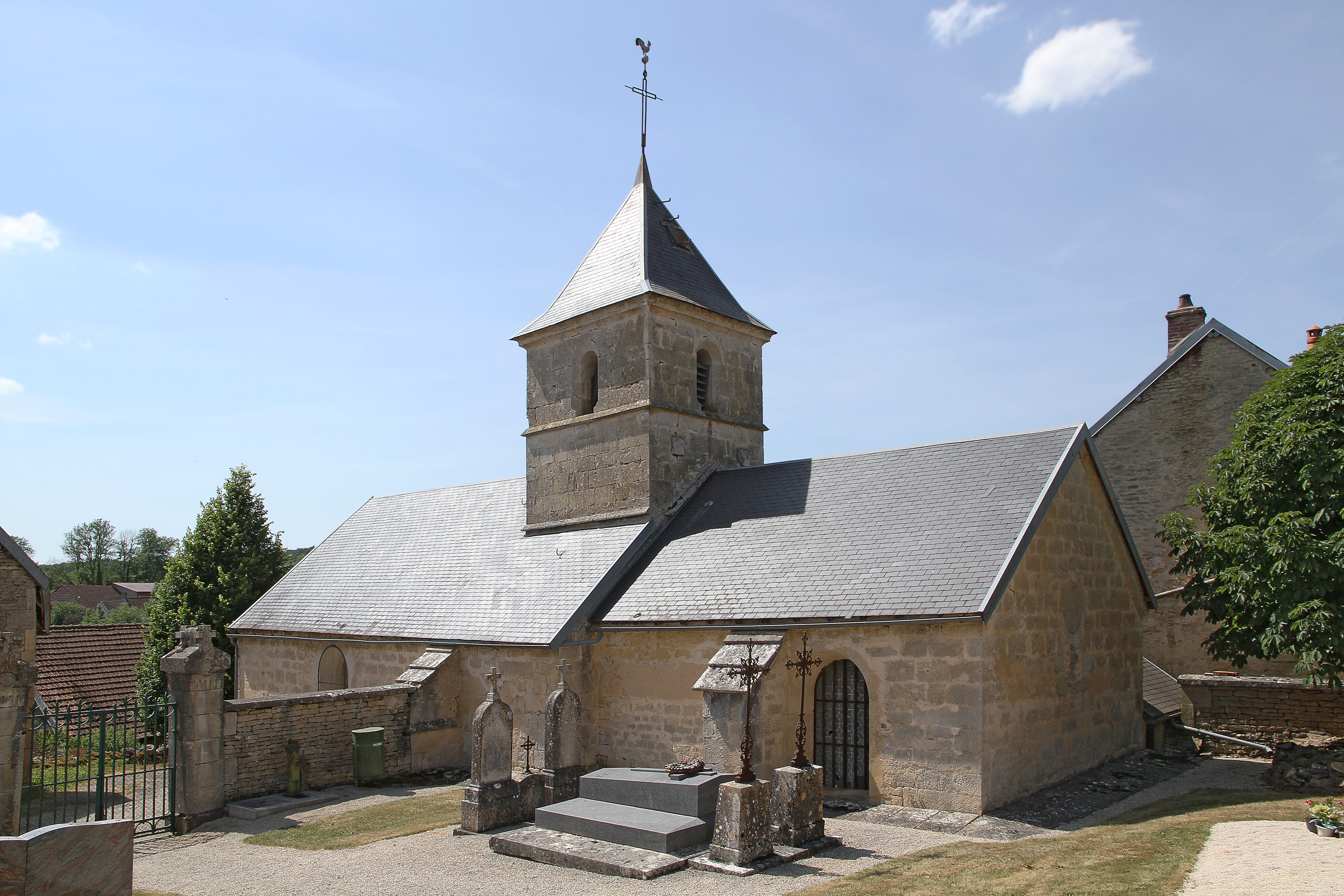 Church of the Nativity and Saint Pierre (St Peter) in Beaunotte